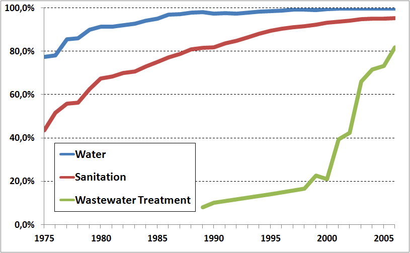 A diagram about Coverage rates of water supply, sanitation and wastewater treatment in Chile from 1975 to 2006